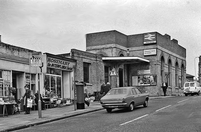 West Ealing Station, entrance. View northward on Drayton Green Road; ex-Great Western main line, Paddington - Reading etc.